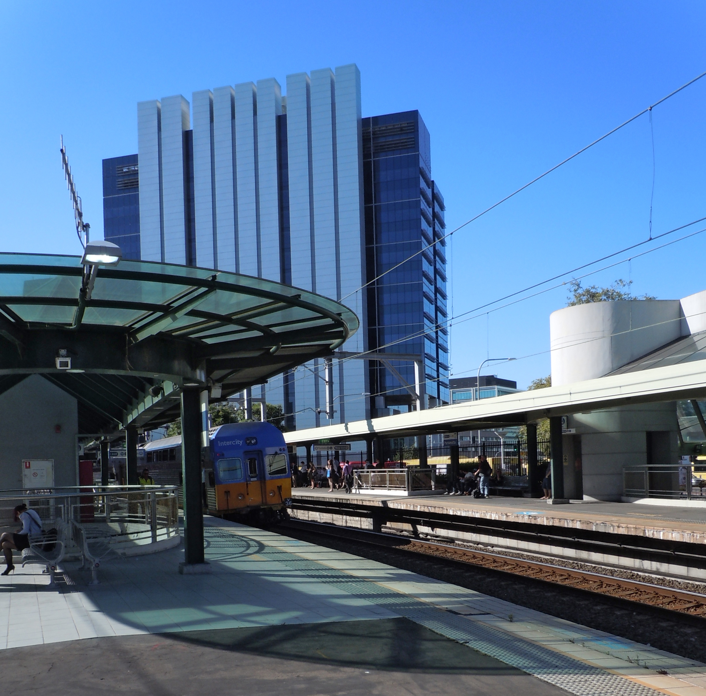 City end of Parramatta railway station.